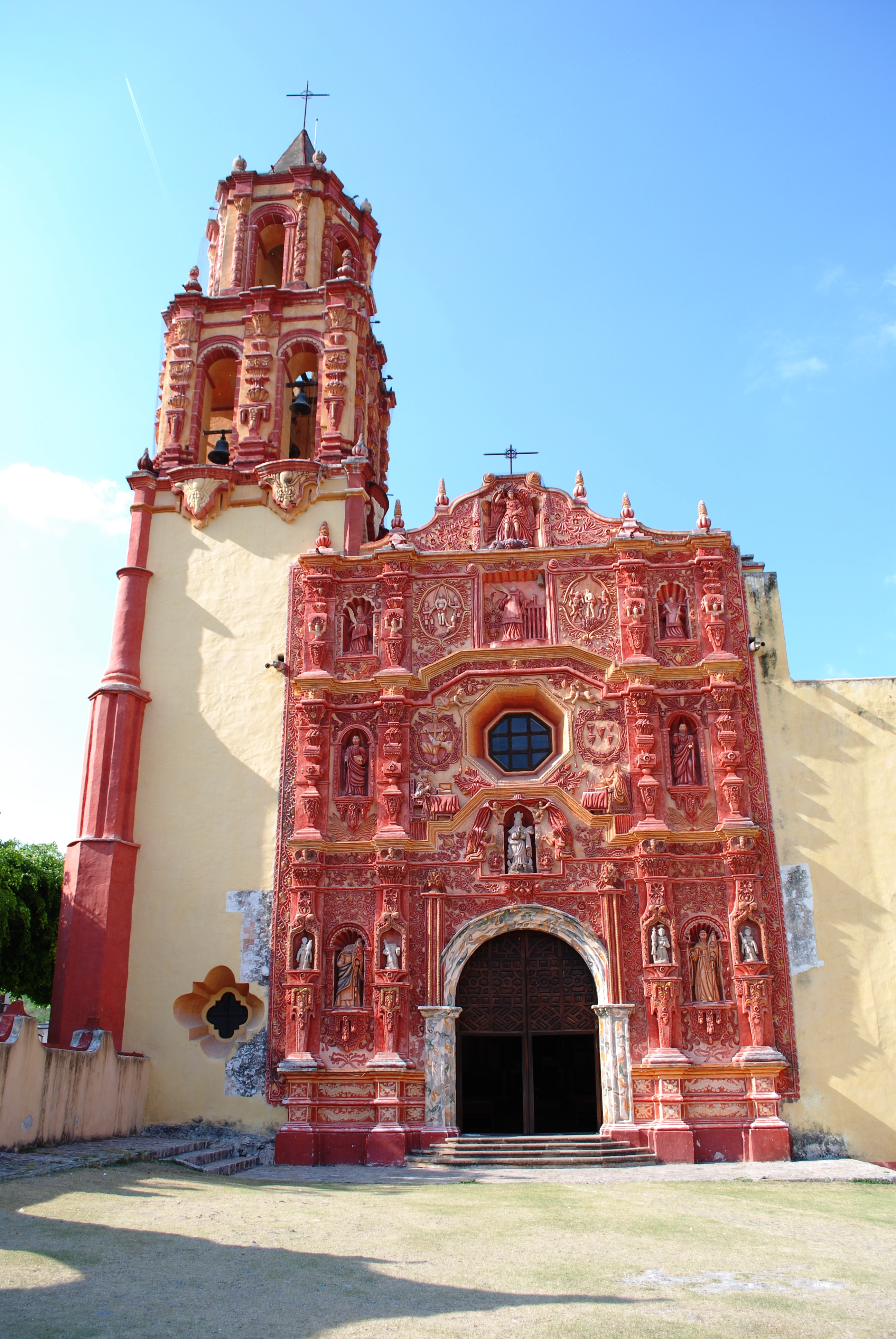 Facade of the mission church in Landa de Matamoros, Querétaro, Mexico